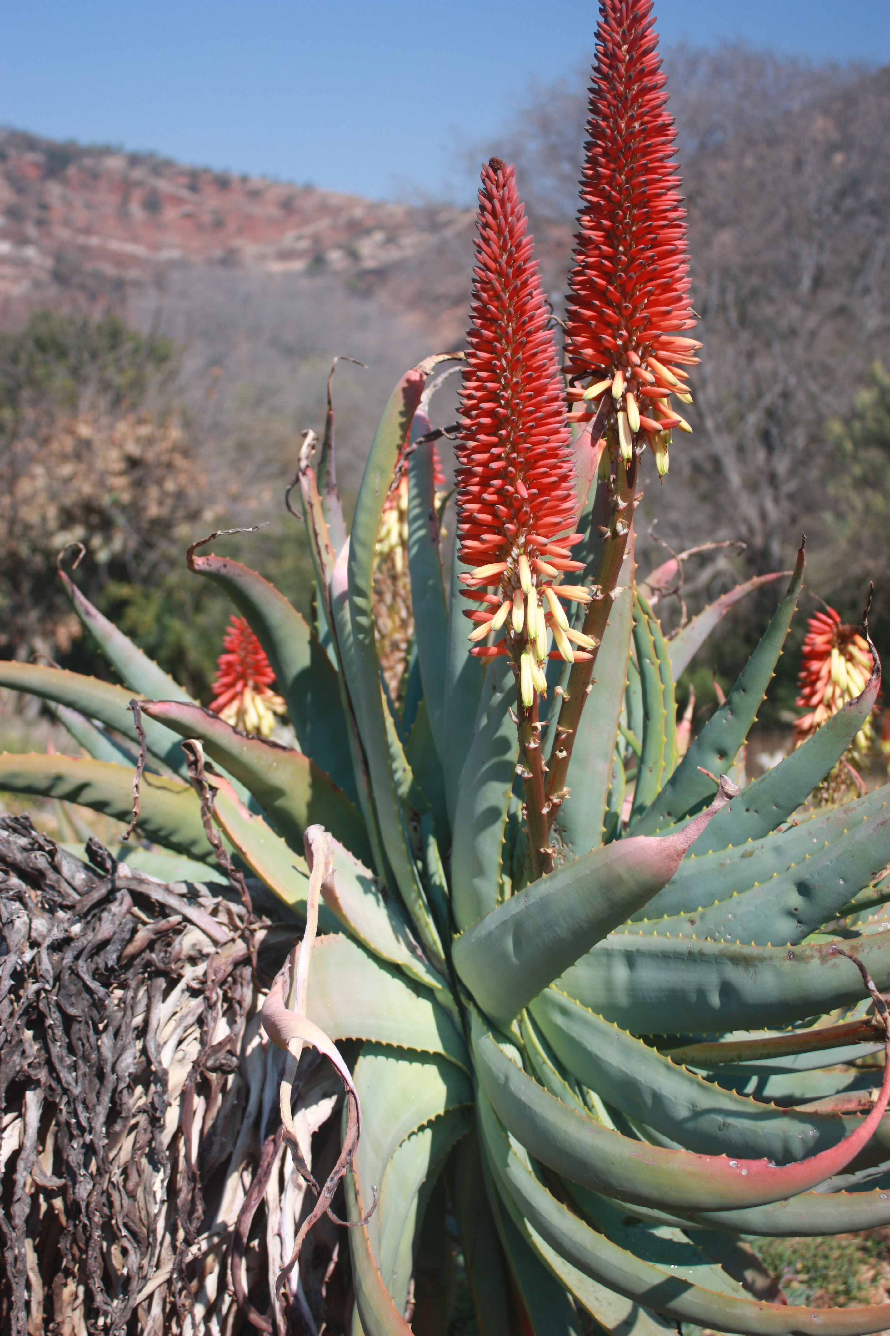 Aloe mutabilis, Walter Sisulu Botanical Garden, Roodepoort, South Africa